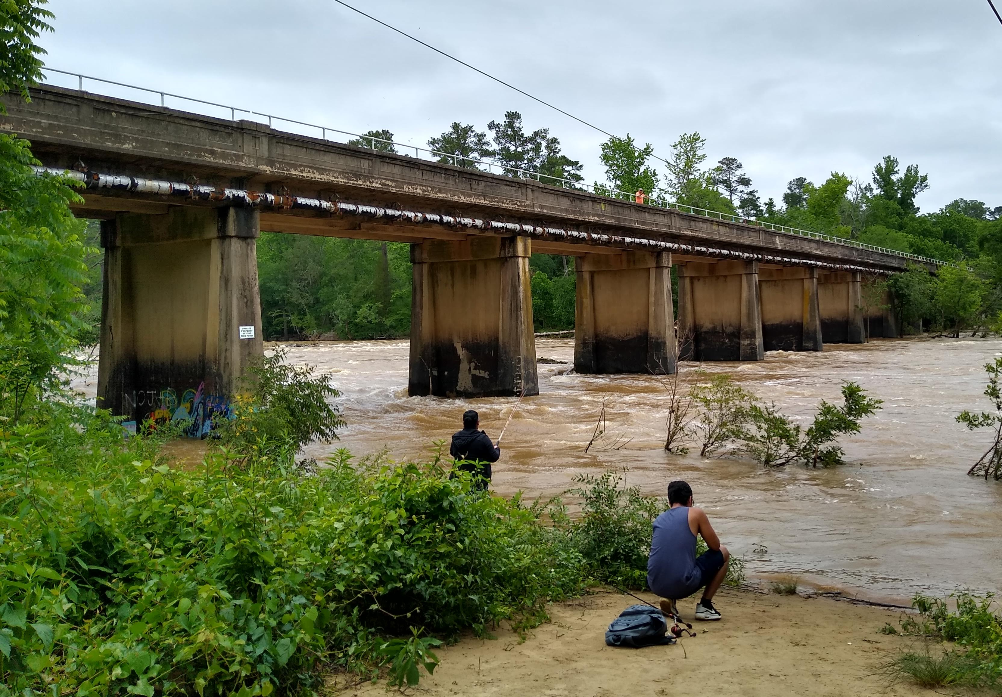 Bynum Bridge over the Haw River in Bynum, Chatham County, North Carolina. Built in 1922 by the North Carolina State Highway Commission, now a pedestrian bridge.